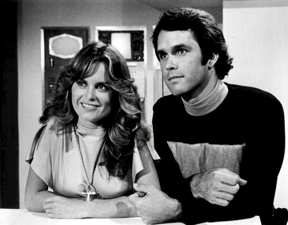 Photo of Heather Menzies as Jessica 6 and Gregory Harrison as Logan 5 from the short-lived television program Logan's Run.